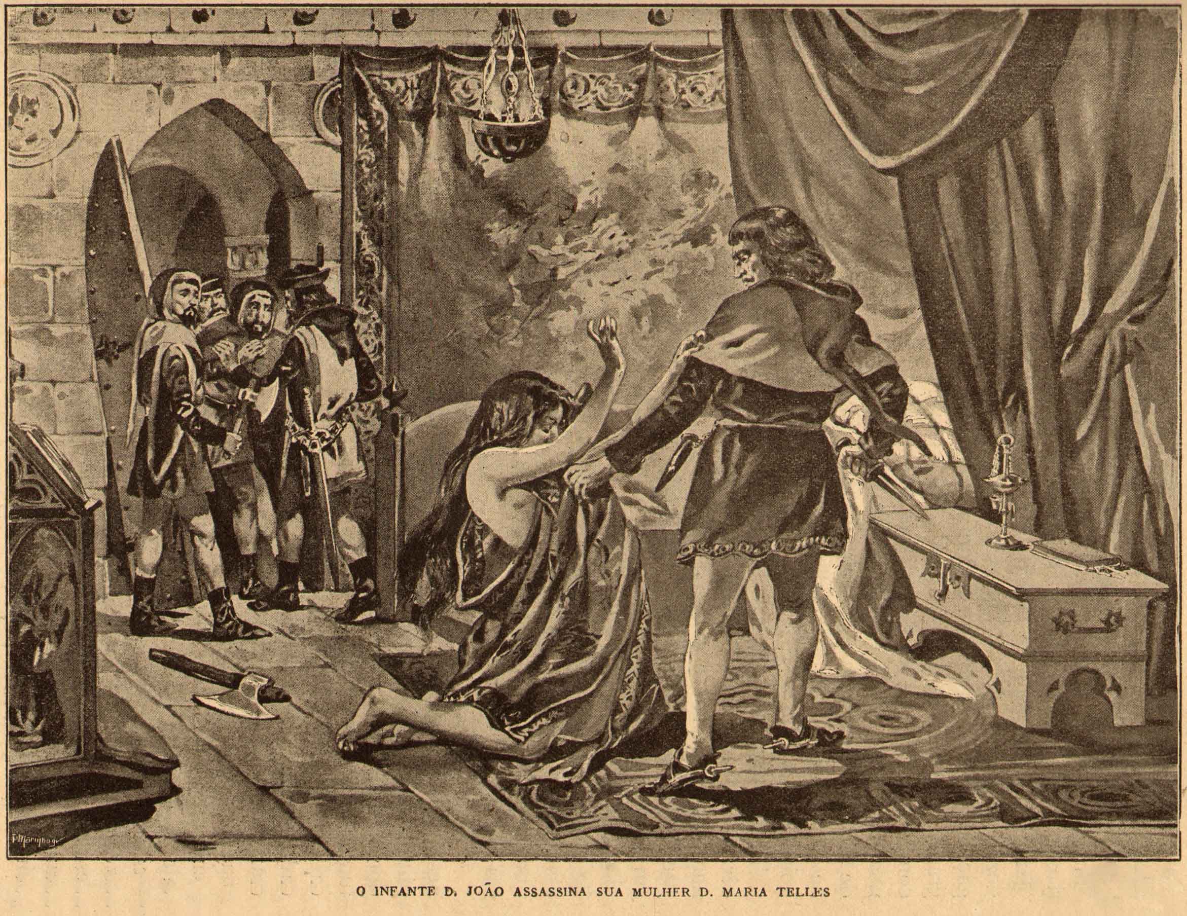 Illustration by Alfredo Roque Gameiro in the book História de Portugal, popular e ilustrada, by Manuel Pinheiro Chagas